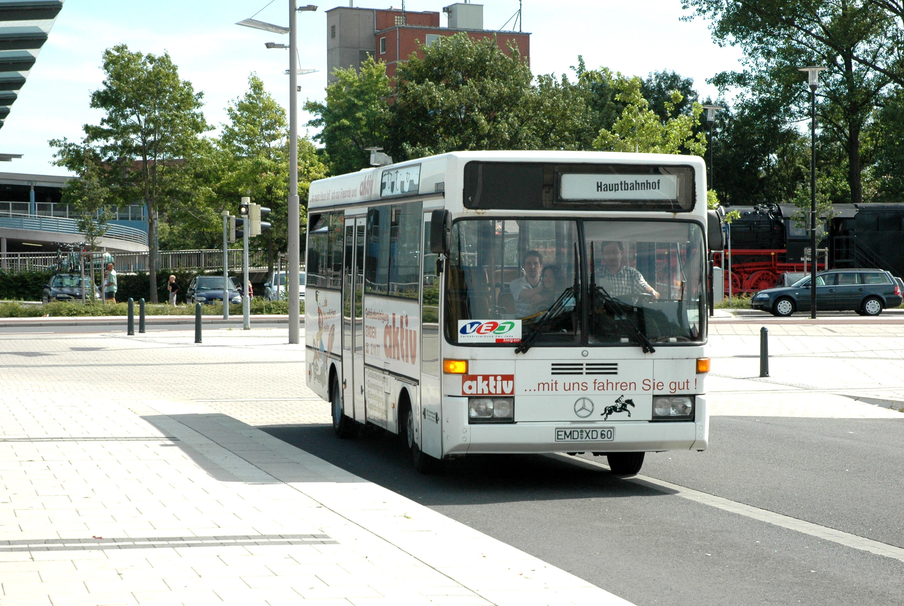 Mercedes-Benz O 402 midibus (reg. EMD-XD 60), built by Göppel with NAW/Mercedes-Benz chassis, in Emden, Lower Saxony, Germany. Stadwerke Emden operator.